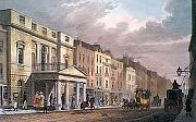 James Wyatt's Pantheon in Oxford St London: contemporary view